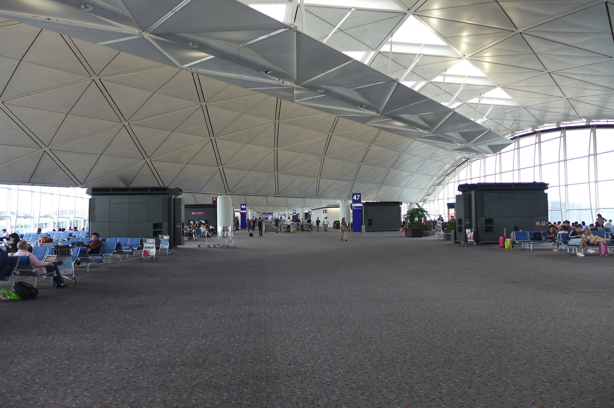 HKIA Terminal 1 Southwest Concourse